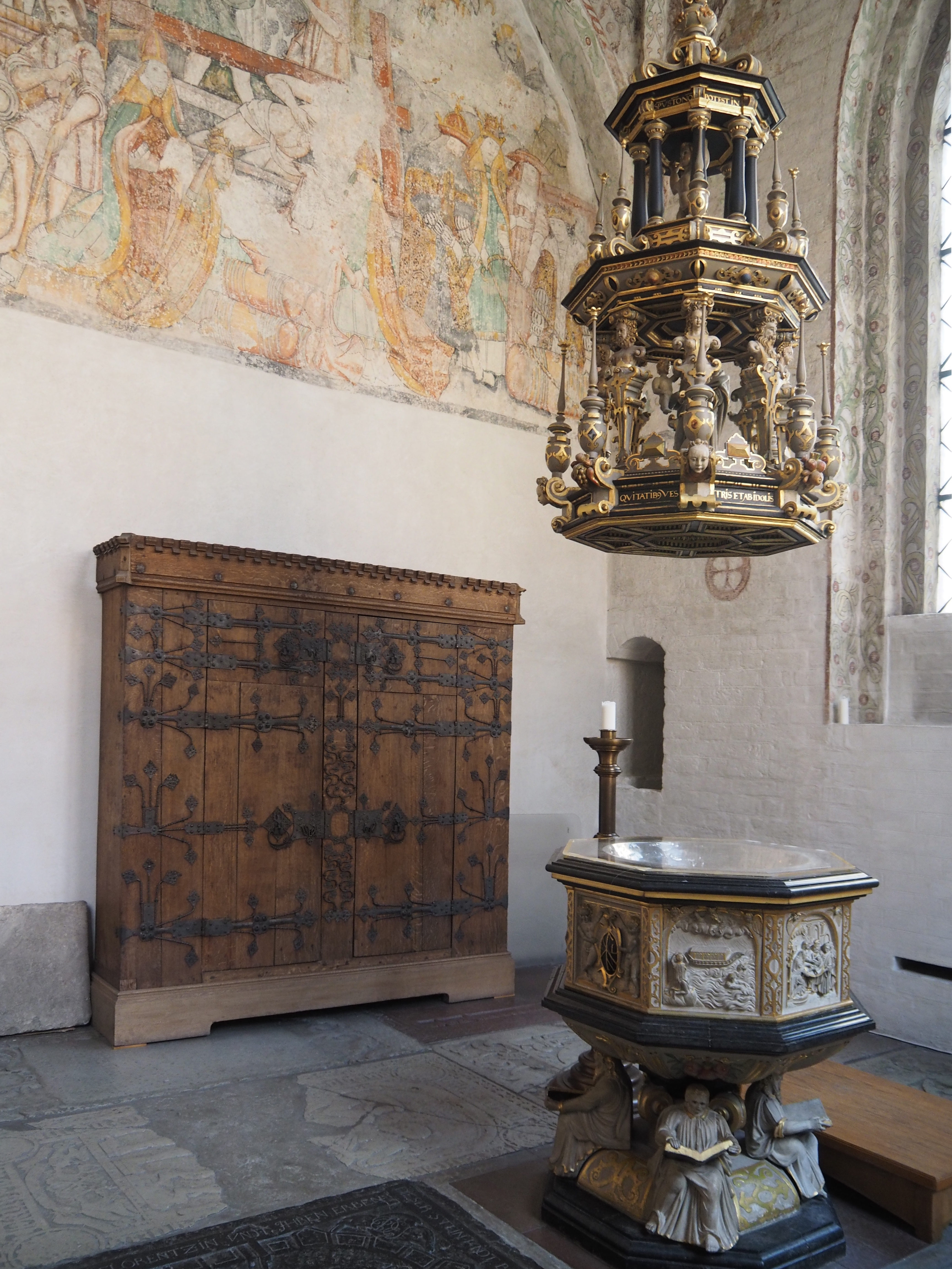 The Krämare chapel, just north of the 105-metre (344 ft) tall tower in Sankt Petri kyrka ("Church of Saint Peter") in Malmö, Sweden.